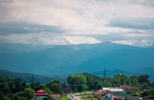 Village Khabez